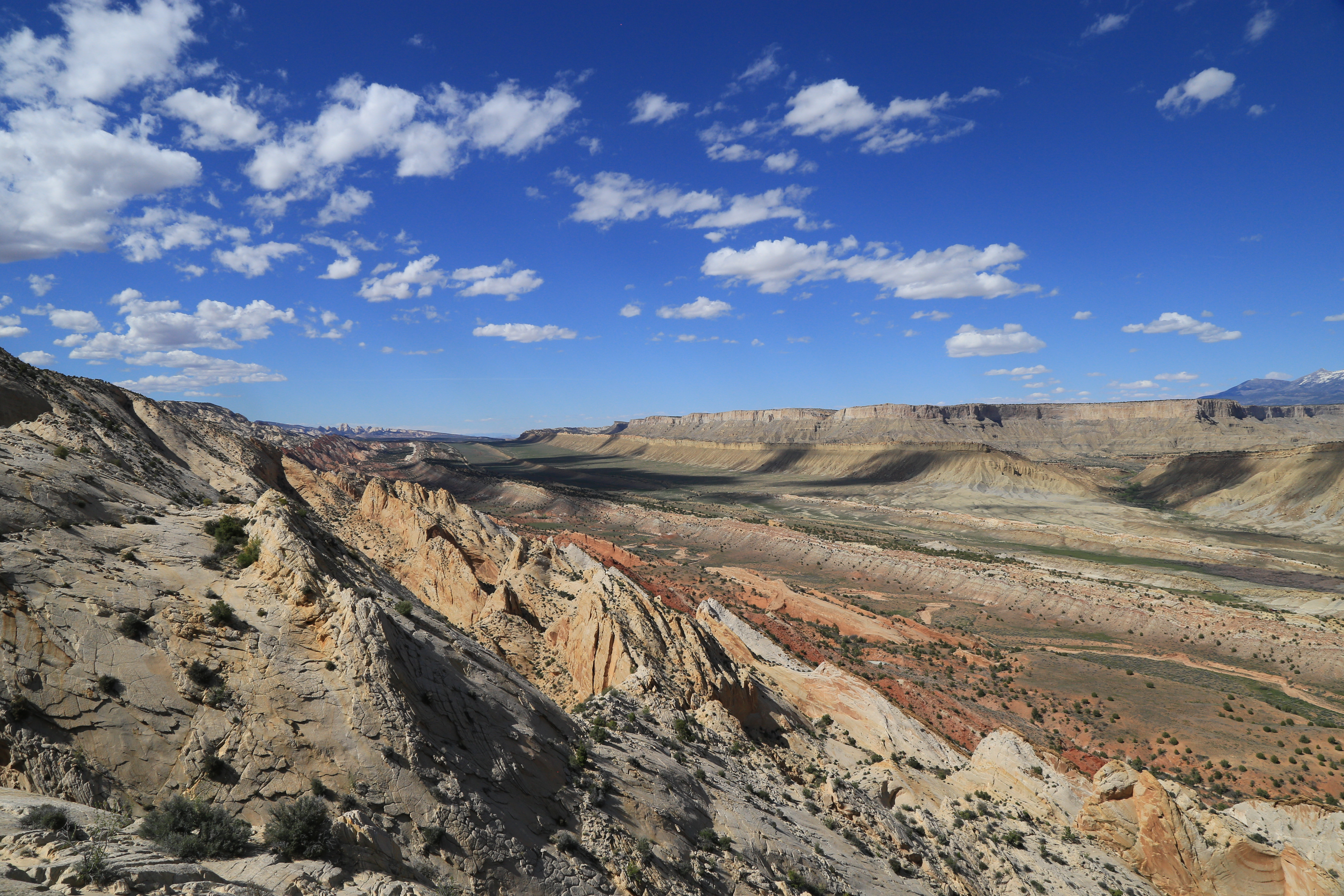 The Strike Valley is the most obvious evidence of the Waterpocket Fold in Capitol Reef National Park